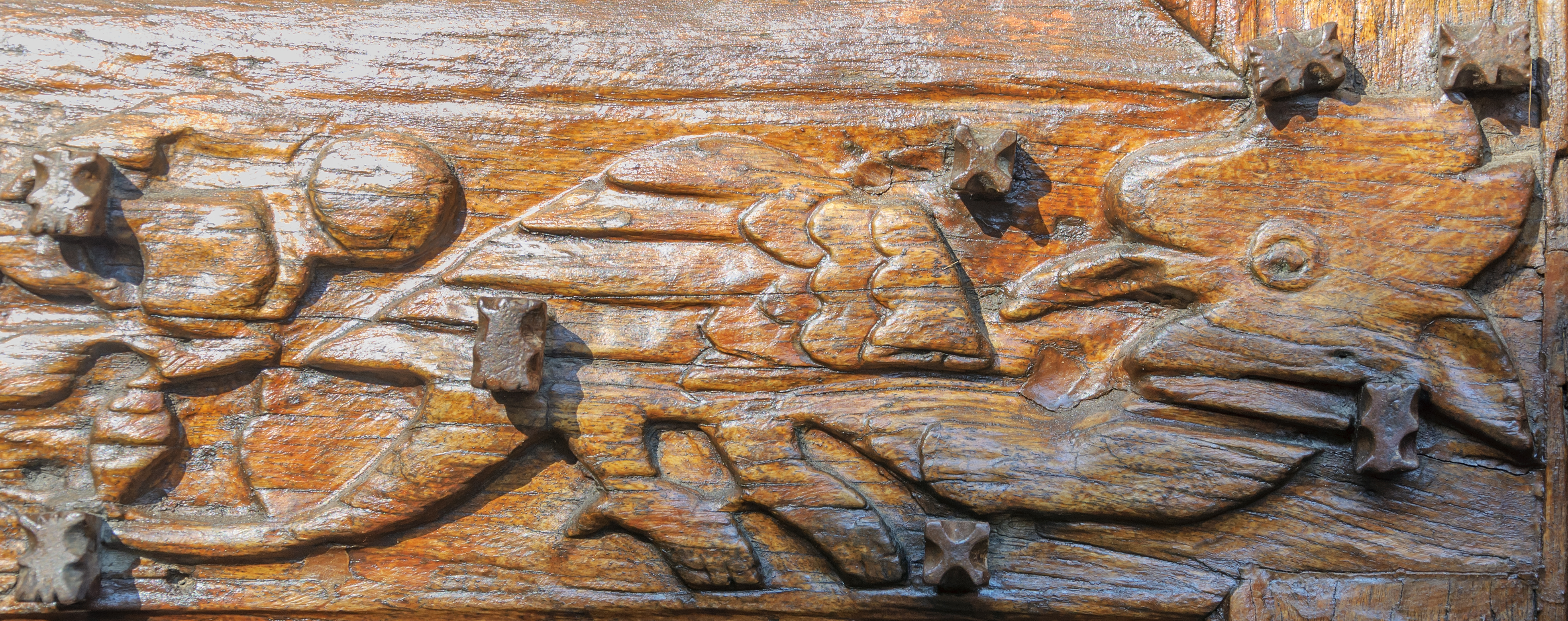 A fantastic bird - Detail of the decor carved on a door of the portal of the church of Saint-Germain-de-Calberte, Lozère, France .